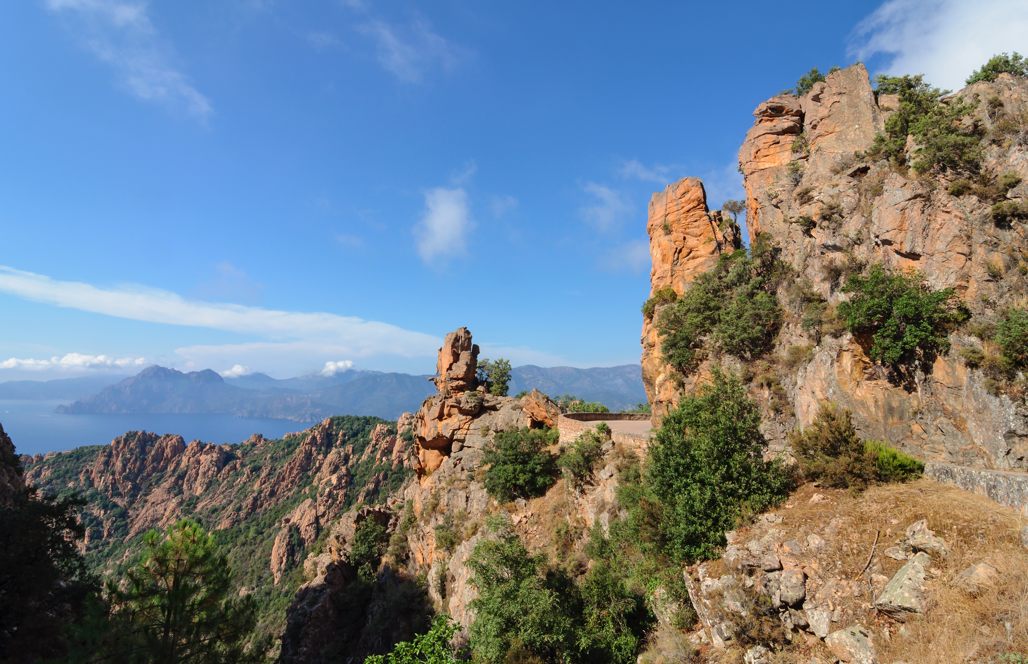 Piana, Southern Corsica, France : the Calanques of Piana.